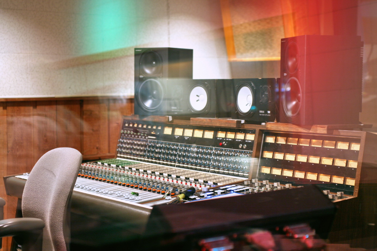 RCA Studio B's Control Room console API 2098: 32 inputs x 16 busses x 24 monitor (API 550A & 550 eq)